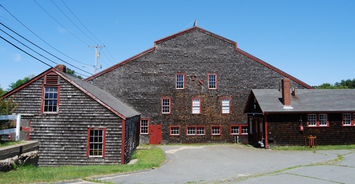 Tremont Nail Works, Wareham, Massachusetts